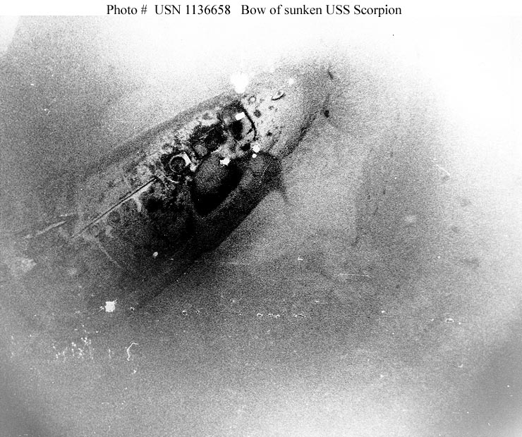 US Navy photo of Scorpion wreck (bow), by Bathyscaphe Trieste